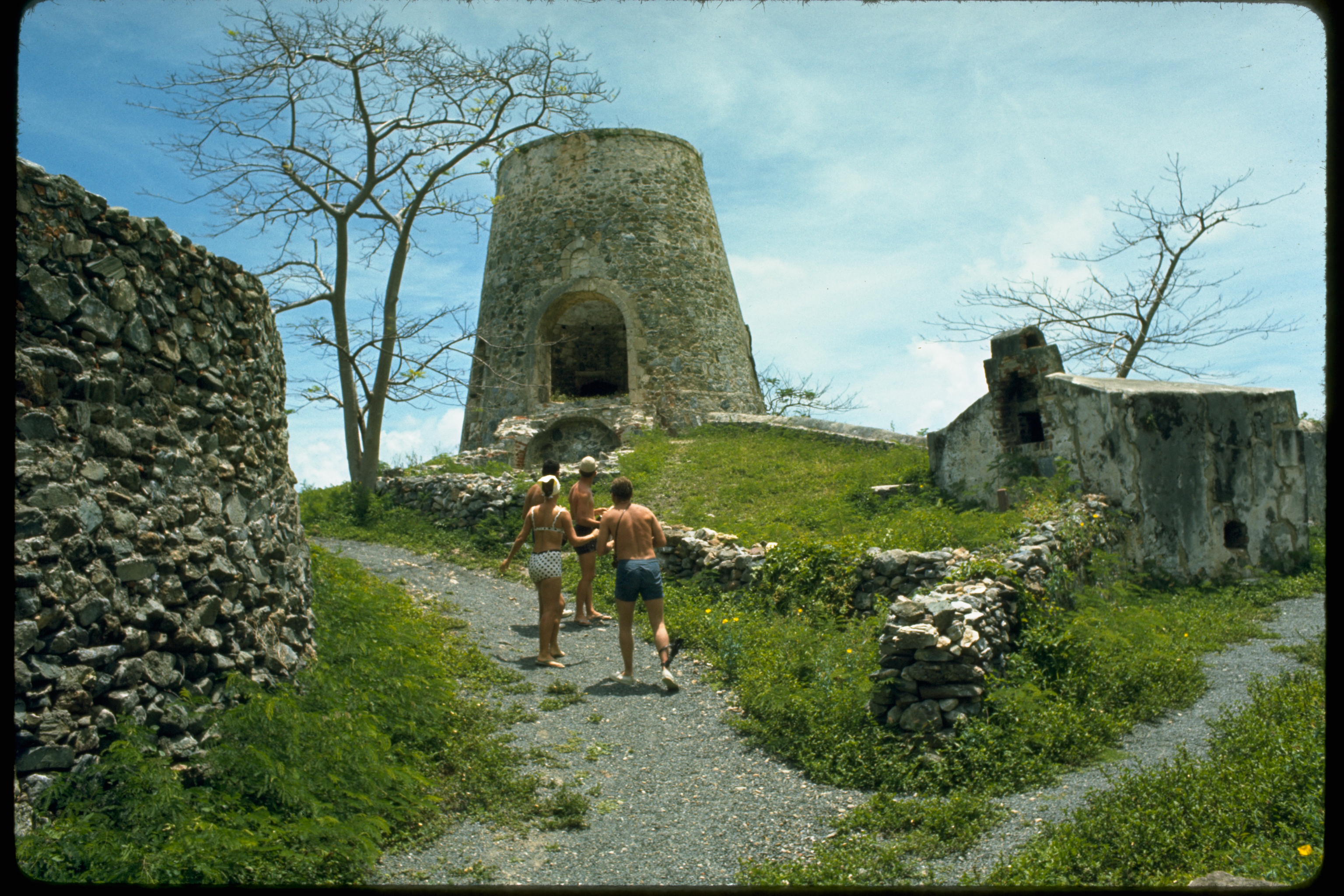 Sugar cane crusher windmill ruins — on St. John island, in Virgin Islands National Park, United States Virgin Islands. On the National Register of Historic Places in Virgin Islands National Park. The Park’s hills, valleys and beaches are breath-taking. However, within its 7,000 plus acres on the island of St. John is the complex history of civilizations - both free and enslaved - dating back more than a thousand years, all who utilized the land and the sea for survival.